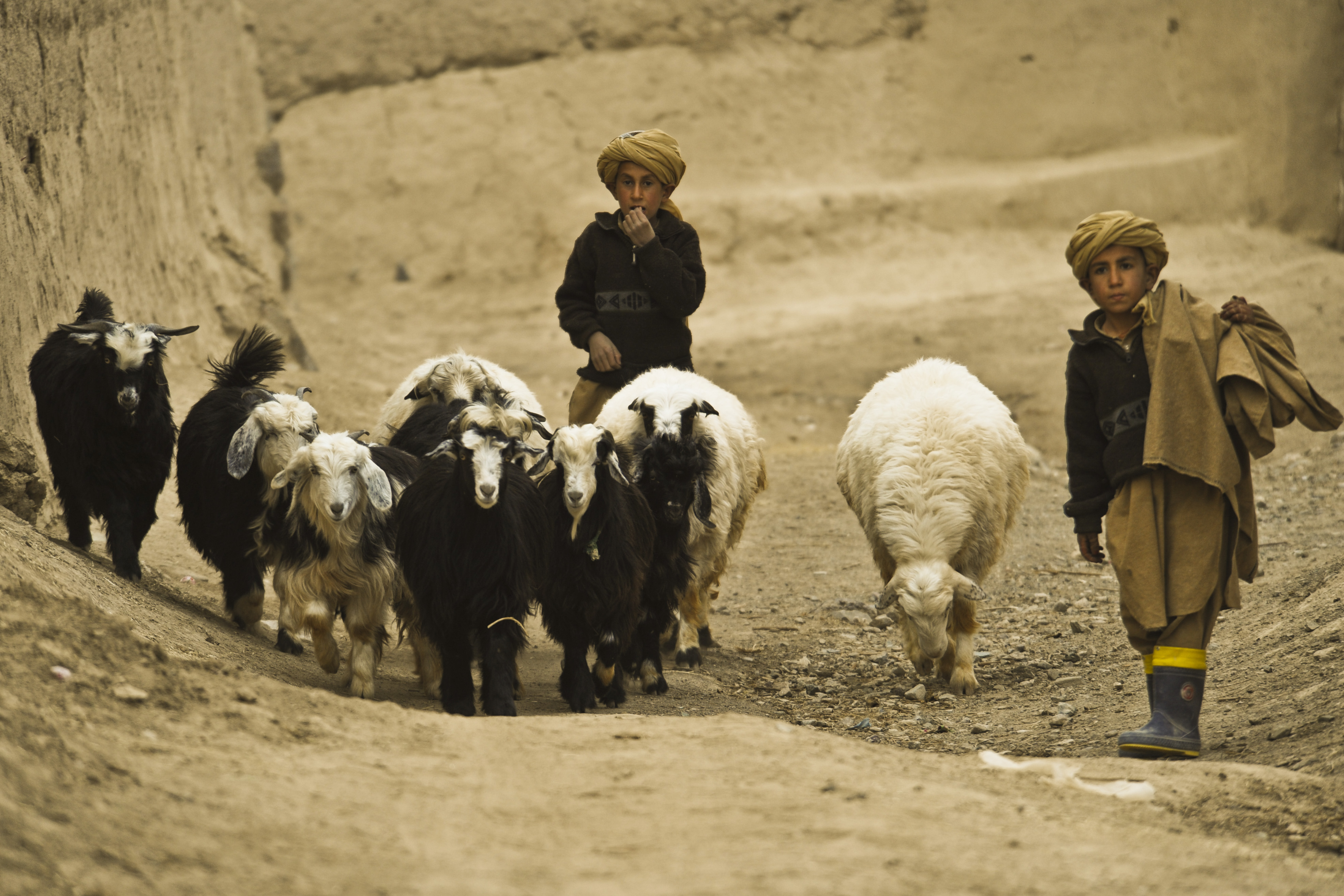 Afghan boys tend to their heard of sheep in Shabila Kalan, Zabul province, Afghanistan, Nov. 30, 2009. Afghan national army and U.S. Soldiers from 4th Battalion, 23rd Infantry Regiment, 5th Brigade, 2nd Infantry Division are conducting a joint patrol in support of Operation Enduring Freedom. (U.S. Air Force photo by Tech. Sgt. Efren Lopez/Released) Unit: Combat Camera Afghanistan